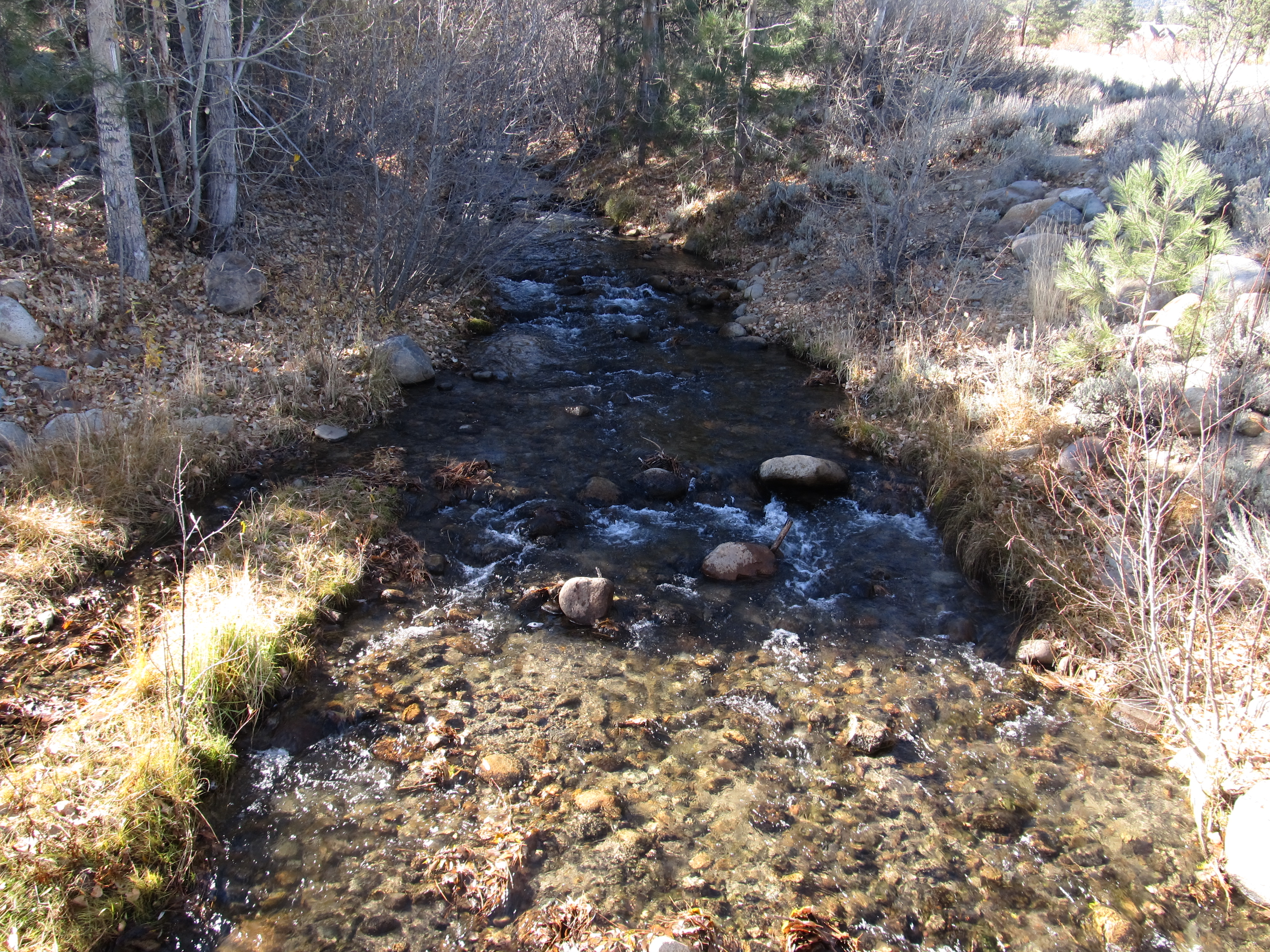 Galena Creek, near Reno, Nevada. Near historic Galena townsite & historic marker #212.